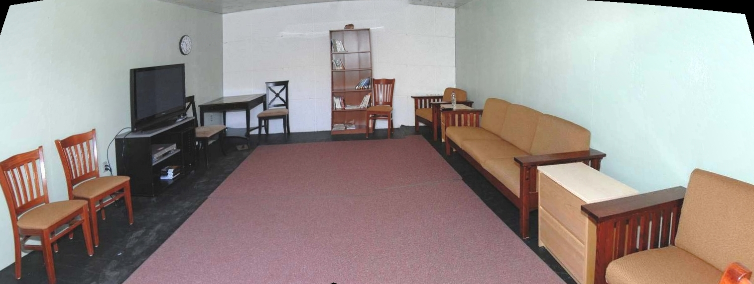 Camp Iguana living area. Stitched together from File:Camp Iguana living area -a.jpg and File:Camp Iguana living area -b.jpg.